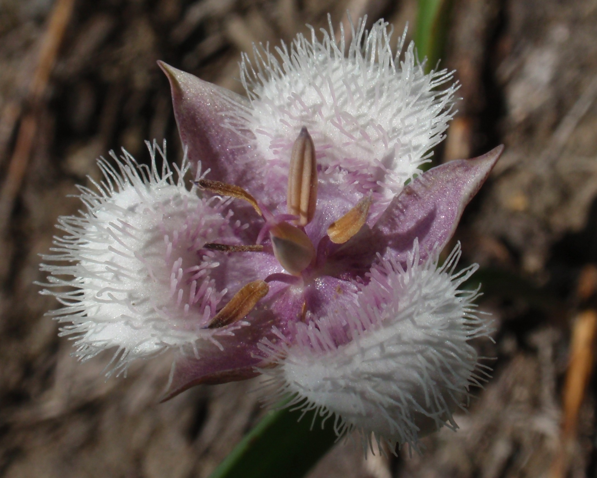 Calochortus coeruleus, above Frying Pan Lake in Marble Mountain Wilderness.